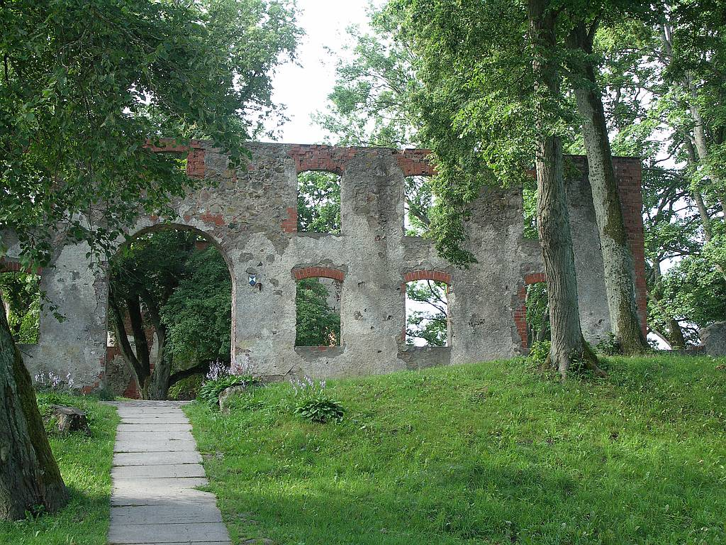 Grobiņa Castle ruins, entry